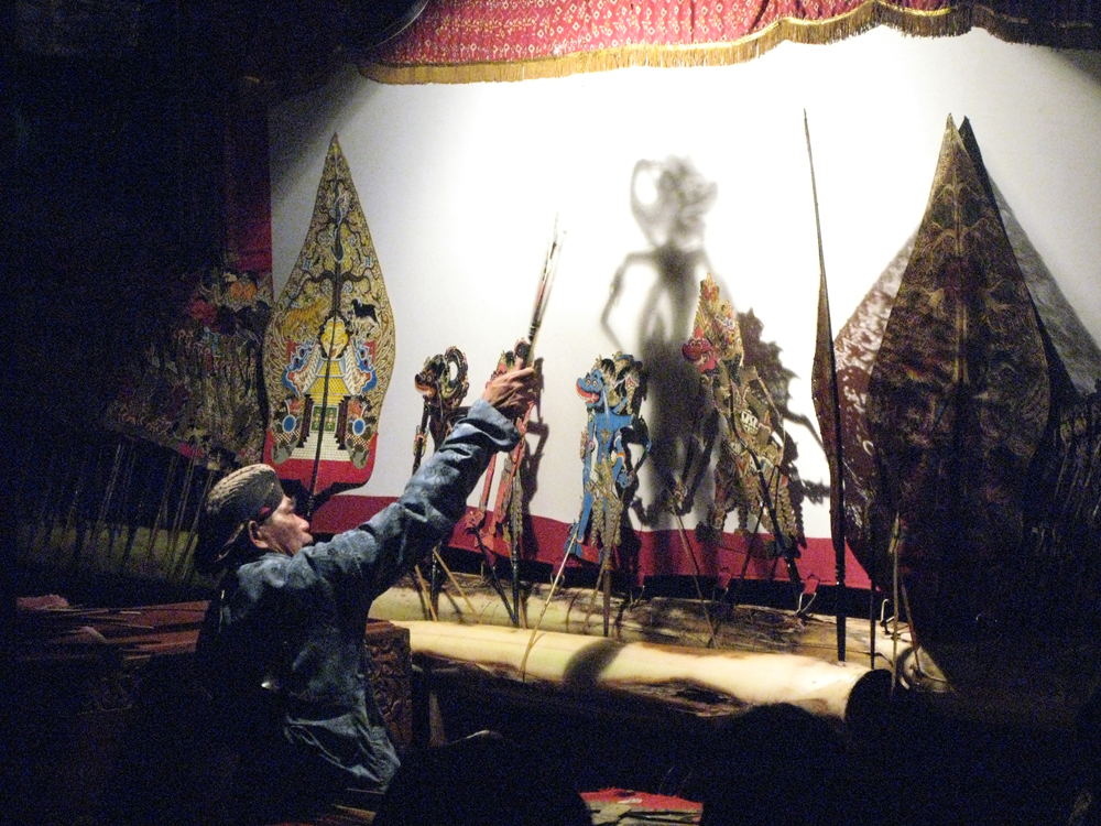 Wayang Kulit